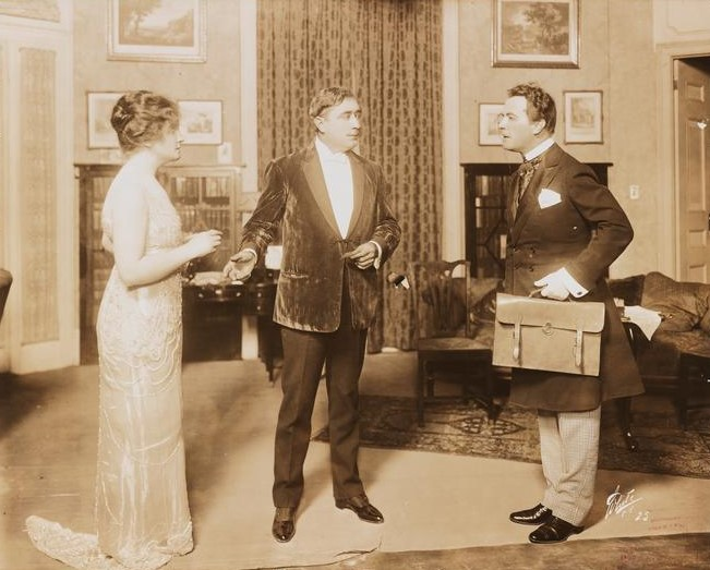 L. to R. : Laura Hope Crews, Malcolm Williams & Leo Ditrichstein in the Broadway's play The Phantom Rival - publicity still (cropped)